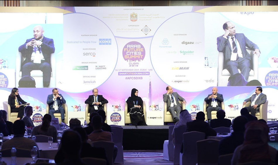 Arab Future Cities Summit 2019